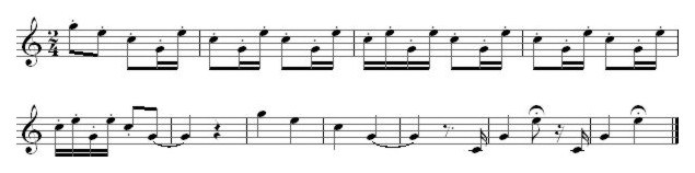 German hunting signal Fox is dead